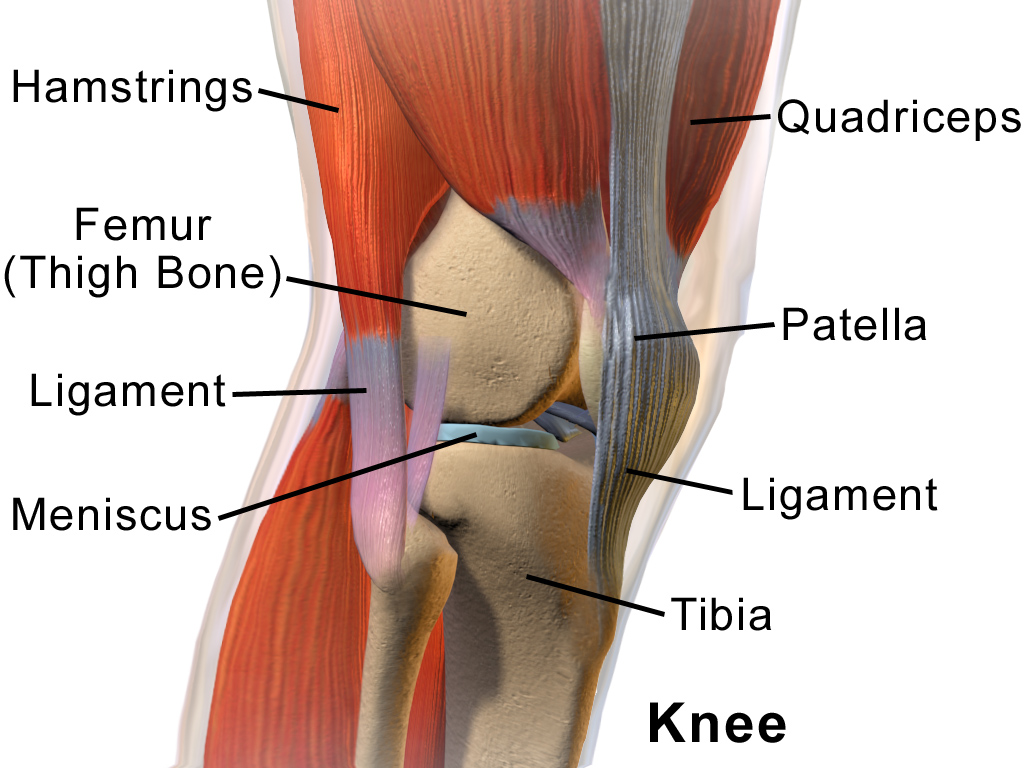 Knee Anatomy. See a related animation of this medical topic.